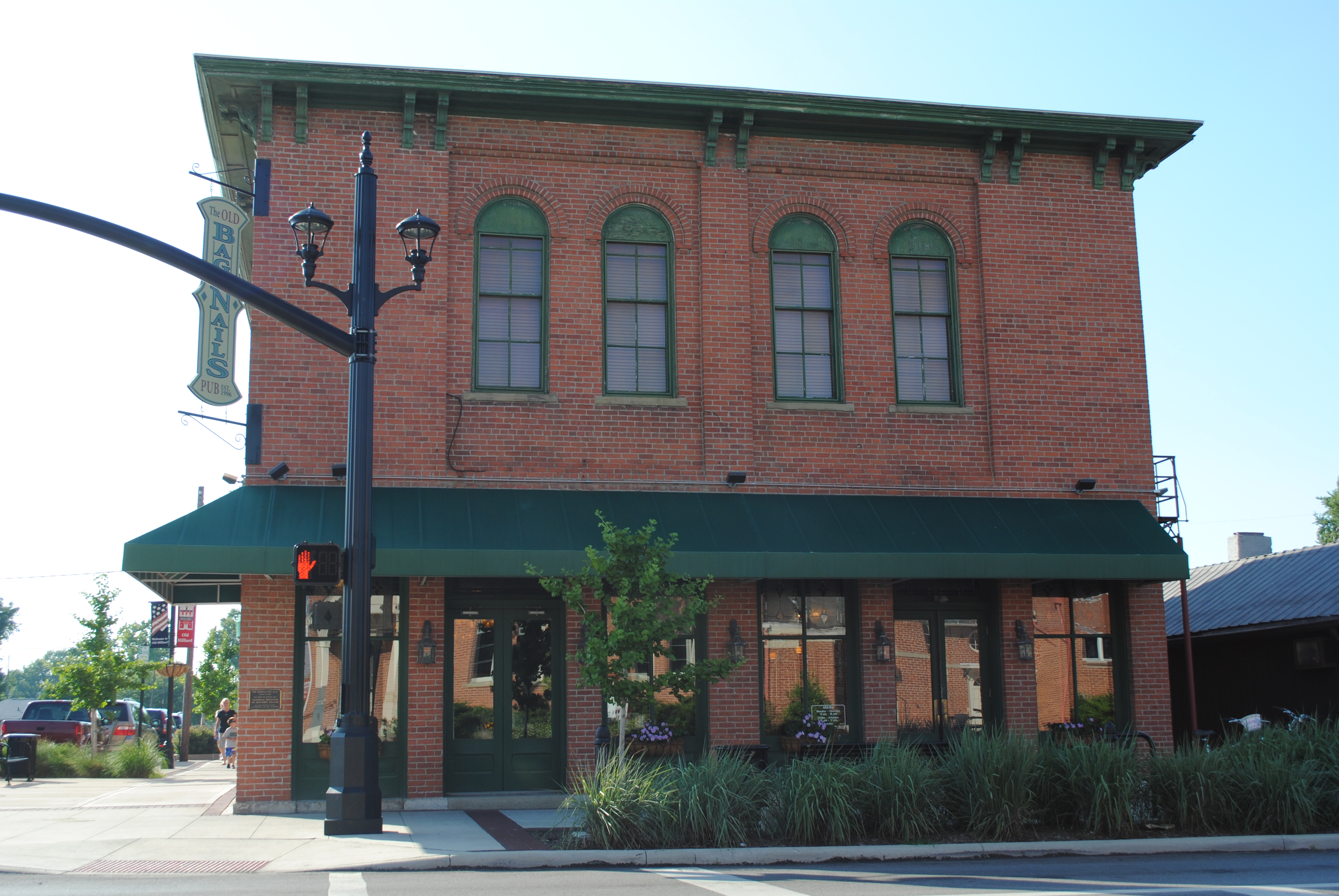 The former Odd Fellows Hall in Hilliard, Ohio. It is listed on the National Register of Historic Places.